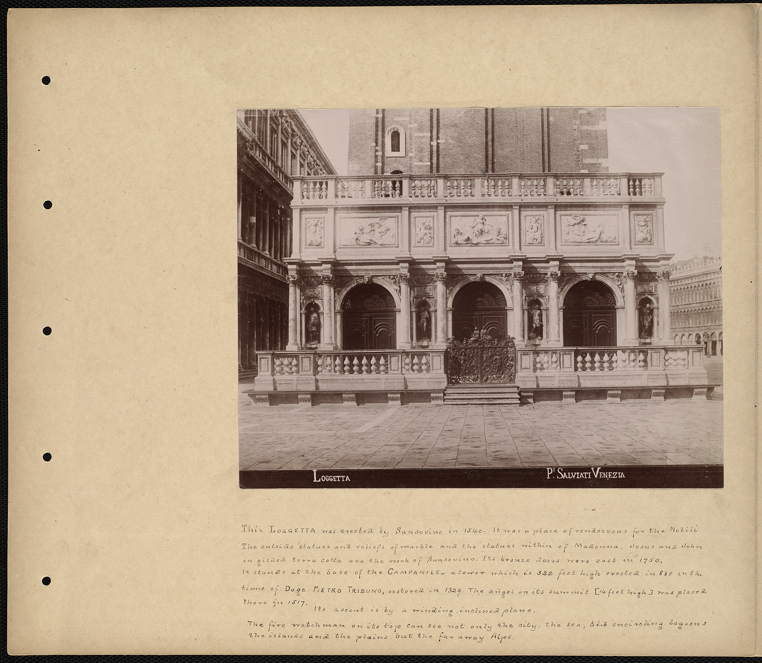 BPLDC no.: 08_04_000149 Page Title: Loggetta Collection: William Vaughn Tupper Scrapbook Collection Album: Volume 44: Venice. Call no.: 4098B.104 v44 (p. 2) Creator: Tupper, William Vaughn Photographer: Salviati, Paolo Genre: Scrapbooks; Albumen prints Extent: 1 photographic print mounted on page : albumen ; page 33 x 39 cm. Description: Scrapbook page contains one photograph of a loggetta in Venice, Italy. Annotated information explains the architectural history and scope of the site and describes several of the design elements. Transcription: This Loggetta was erected by Sansovino in 1540. It was a place of rendezvous for the Nobili. The outside statues and reliefs of marble and the statues within of Madonna, Jesus and John in gilded terra cotta are the work of Sansovino. Its bronze doors were cast in 1750. It stands at the base of the Campanile, a tower which is 322 feet high erected in 888 in the time of Doge Pietro Tribuno, restored in 1329. The angel on its summit [16 feet high] was placed there in 1517. Its ascent is by a winding inclined plane. The watchman on its top can see not only the city, the sea, and encircling lagoons, the islands and the plains but the far away Alps. Notes: Page title and description supplied by cataloger, derived from captions and/or annotated information.; Caption on image: Loggetta, Venezia BPL Department: Print Department Rights: No known restrictions. Flickr data on 2011-08-05: Camera: Sinar AG Sinarback 54 FW, Sinar m License: CC BY 2.0 User: Boston Public Library BPL